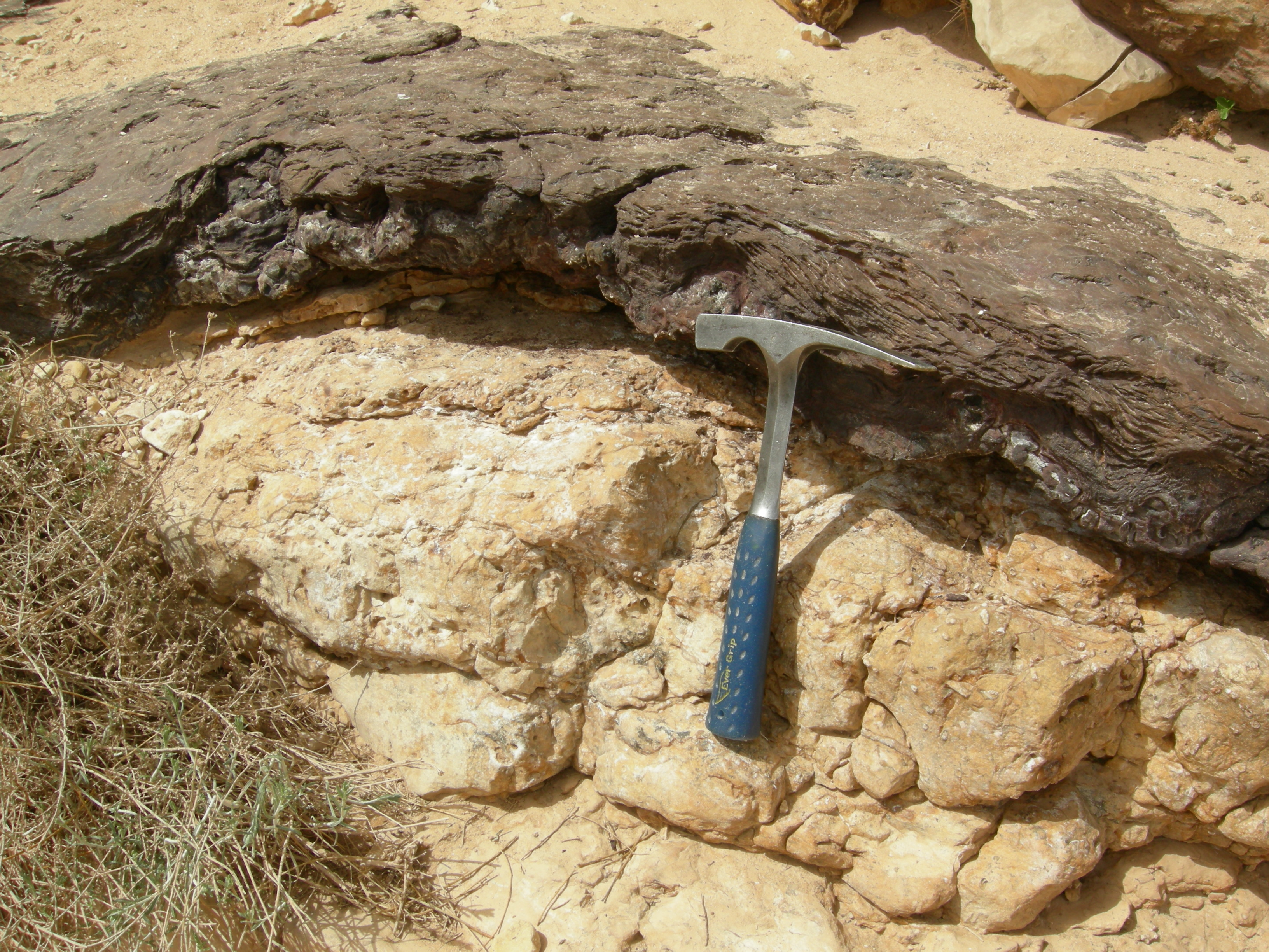 Cretaceous laterite in Makhtesh Gadol, Israel. It sits on top of a Jurassic limestone and is in turn covered by Cretaceous sandstone. It was formed by a humid Cretaceous forest.